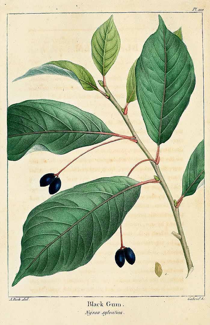 Nyssa sylvatica Marshall - "North American sylva" (1817-1819), Michaux, F.A., vol.3, Plate 110